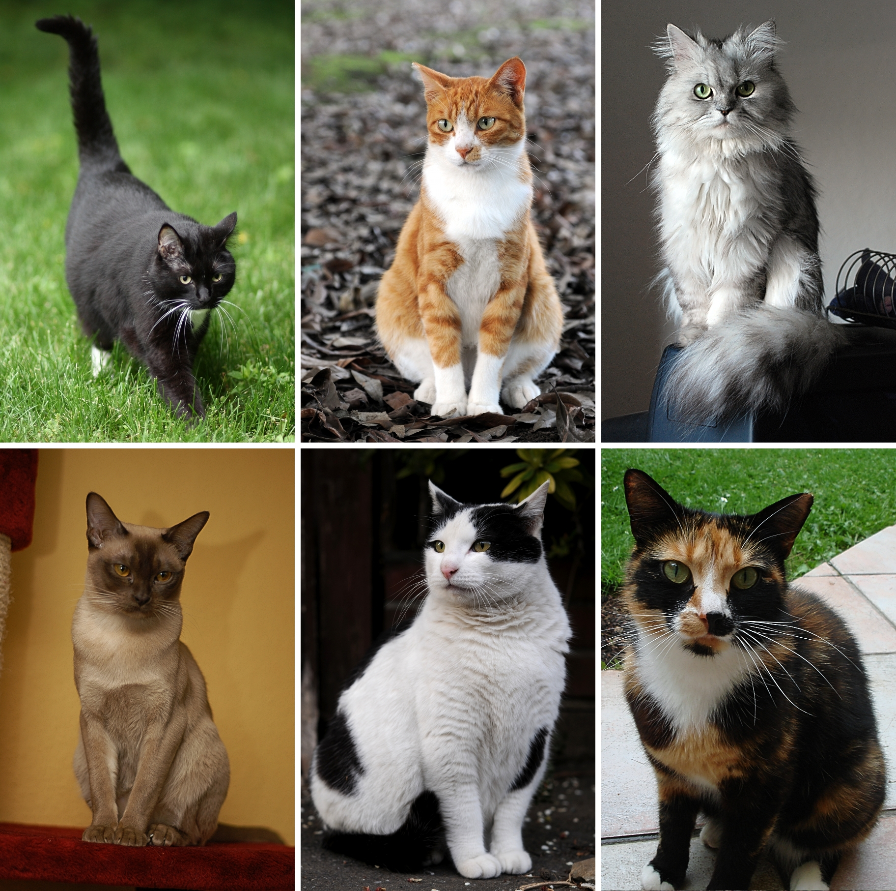 Montage of six cat photos